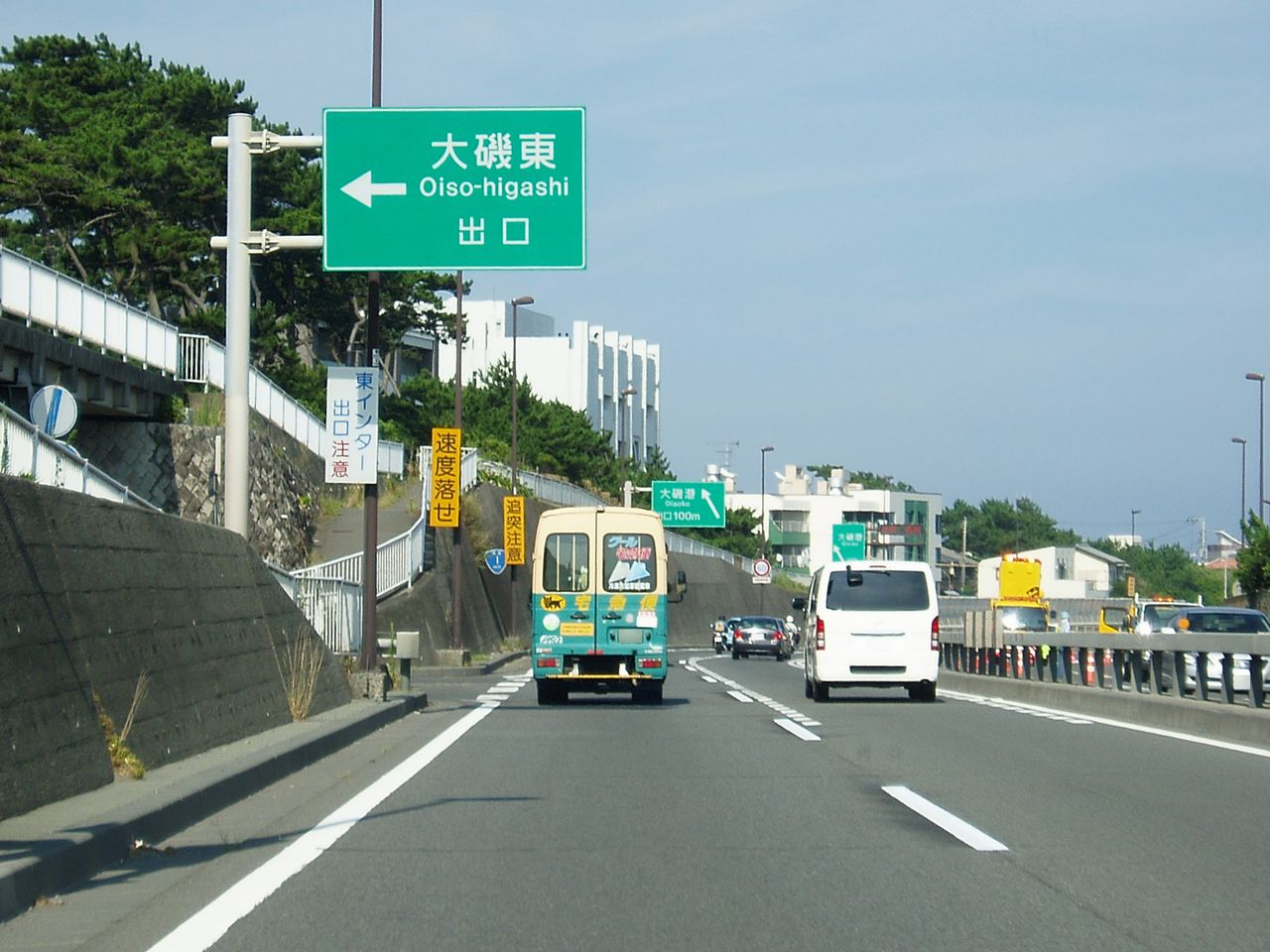 Oiso-higashi exit, Route 1 "Seisho bypass" in Japan